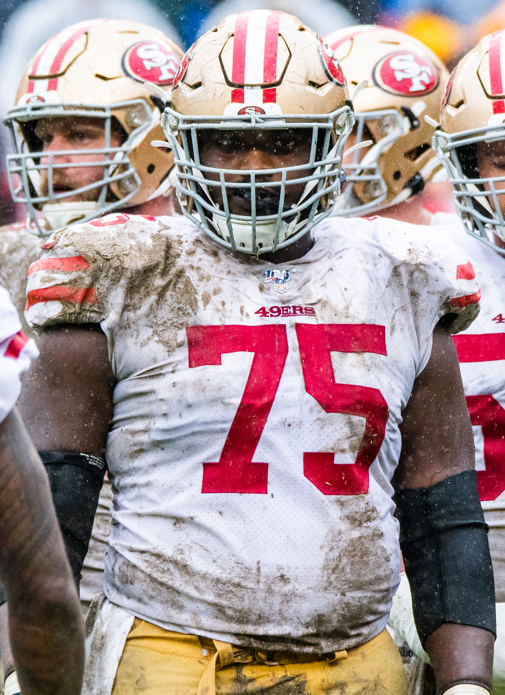 in 2019